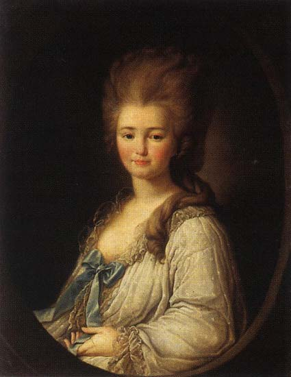 Russian noblewoman Alexandra Branitskaya (1754-1838) painted during her pregnancy in the 1780s wearing a simple, flowing house robe.